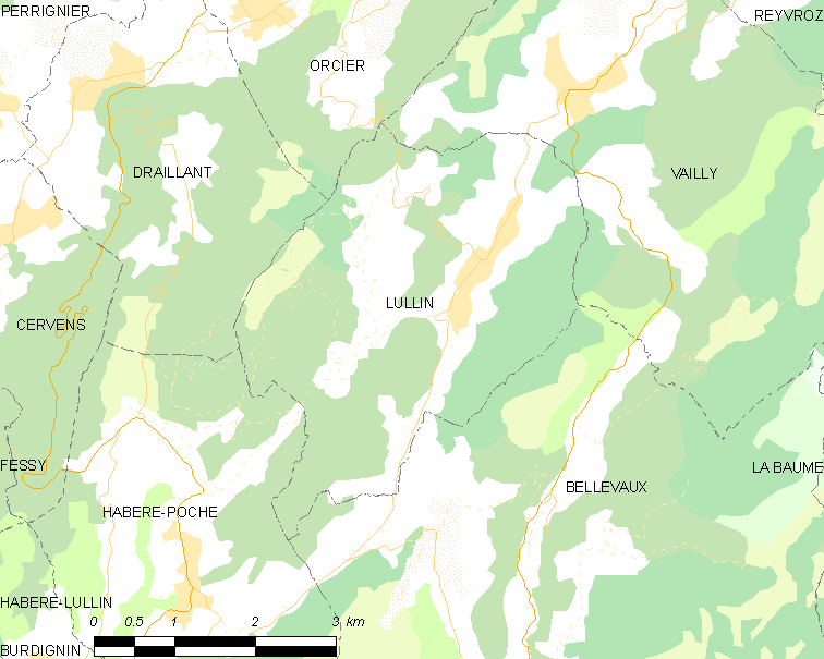 Map of French municipality Lullin